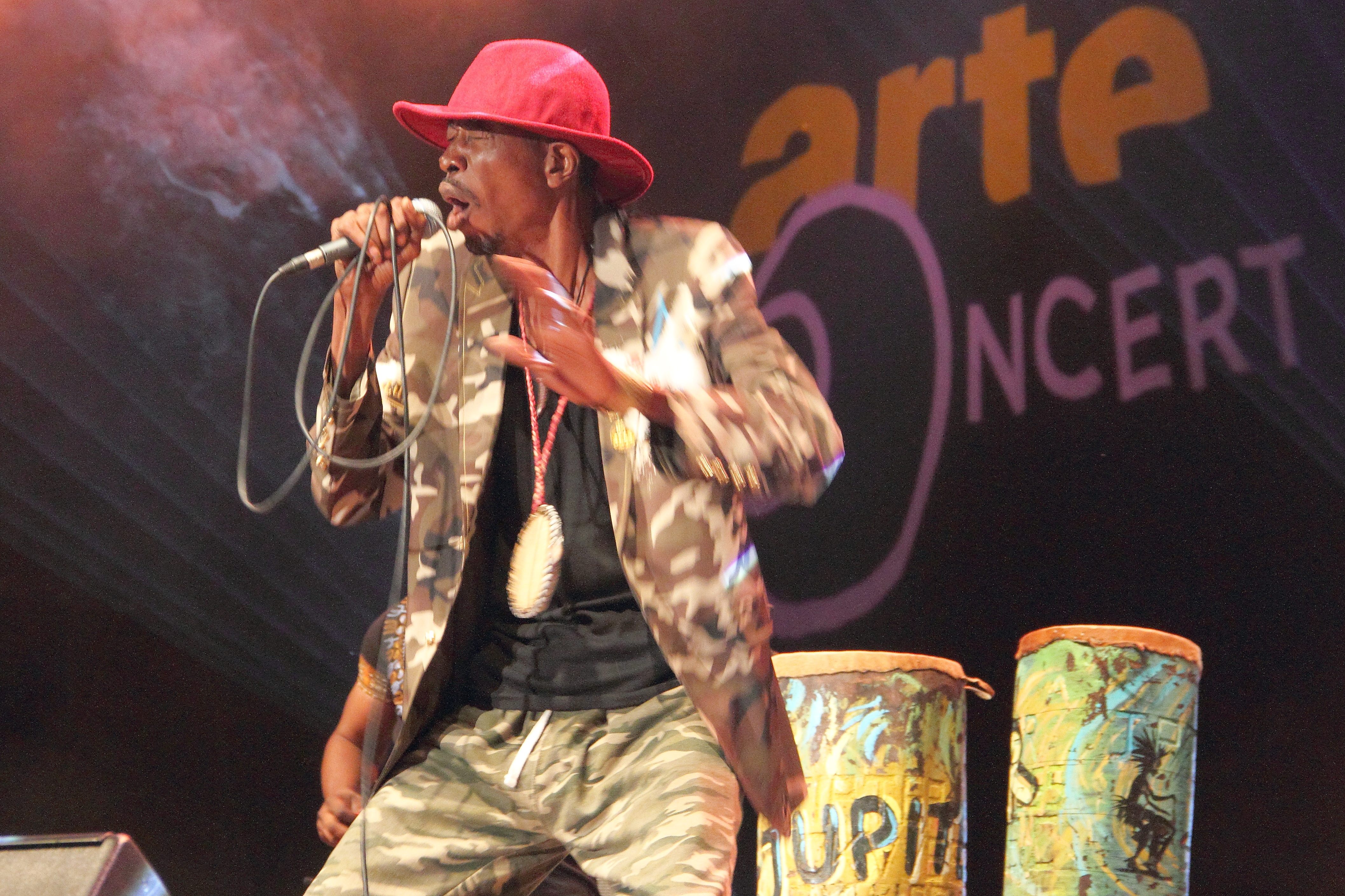 Jupiter & Okwess from the Democratic Republic of the Congo at Rudolstadt-Festival 2017.